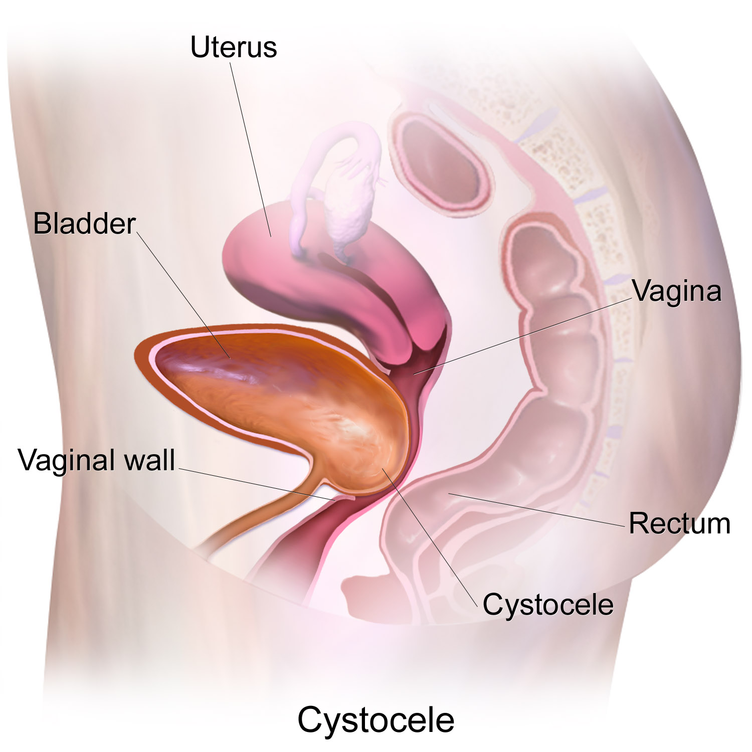 Medical illustration of an anterior prolapse, or a cystocele.